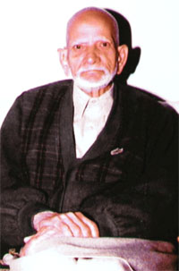 For use in article about Sharif